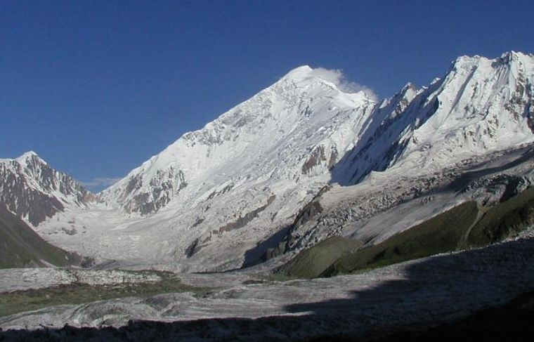 The beautiful pyramid-shaped Diran Peak (7,257 metres) as seen from Tagafari (base camp of Rakaposhi), Northern Areas of Pakistan.